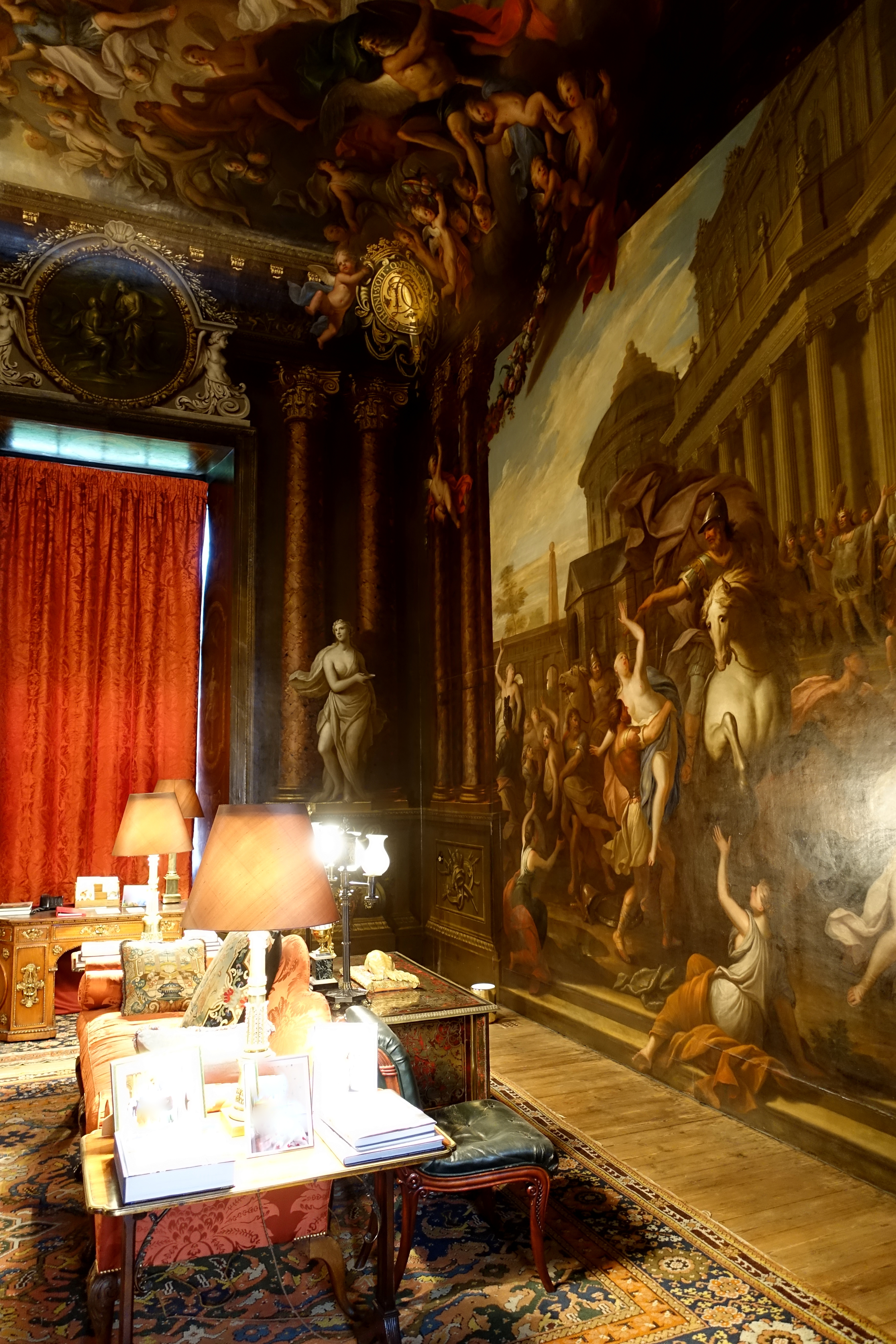 Painted Antechamber, Chatsworth House - Derbyshire, England.